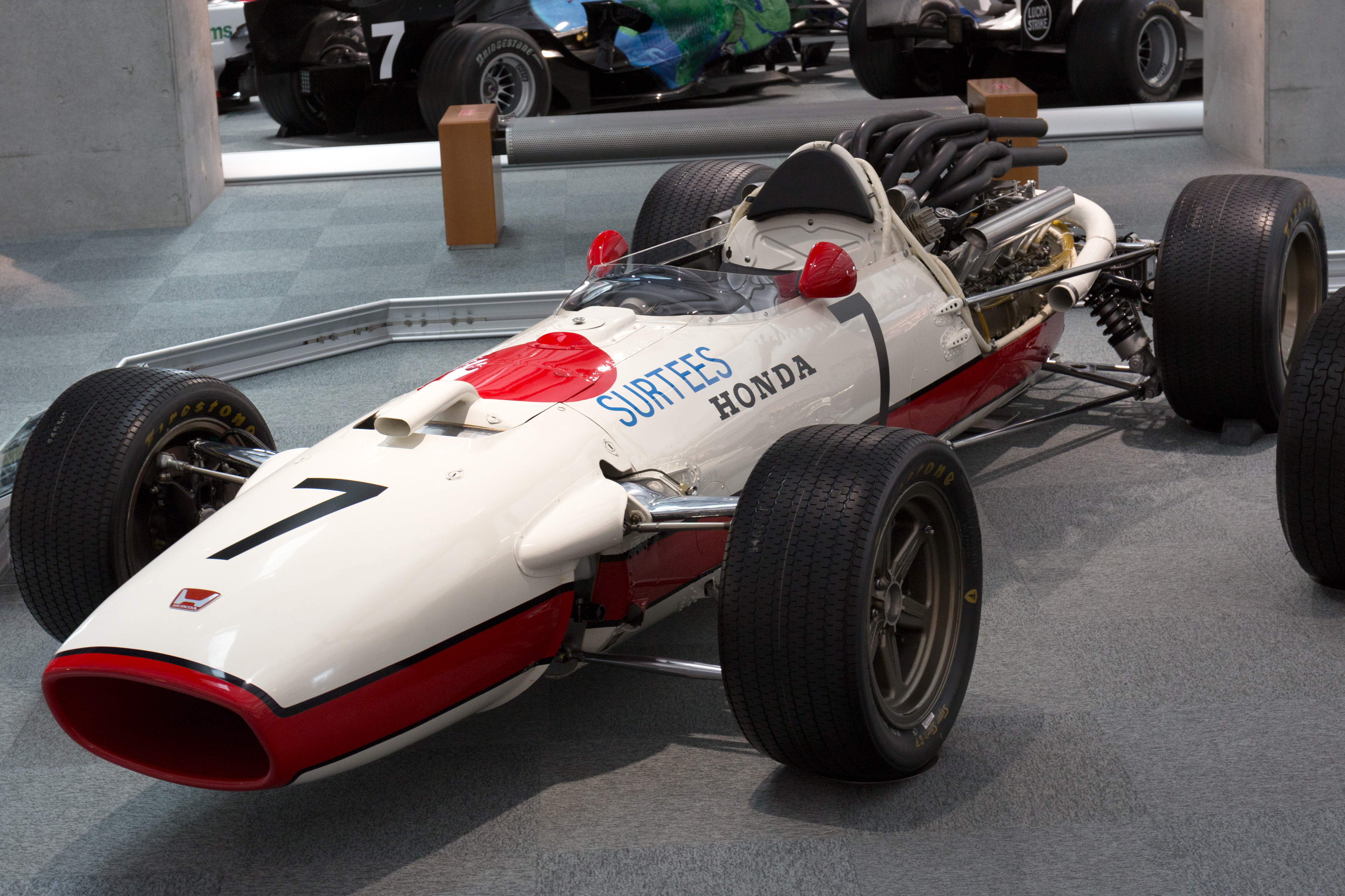 1967 Honda RA273 of John Surtees